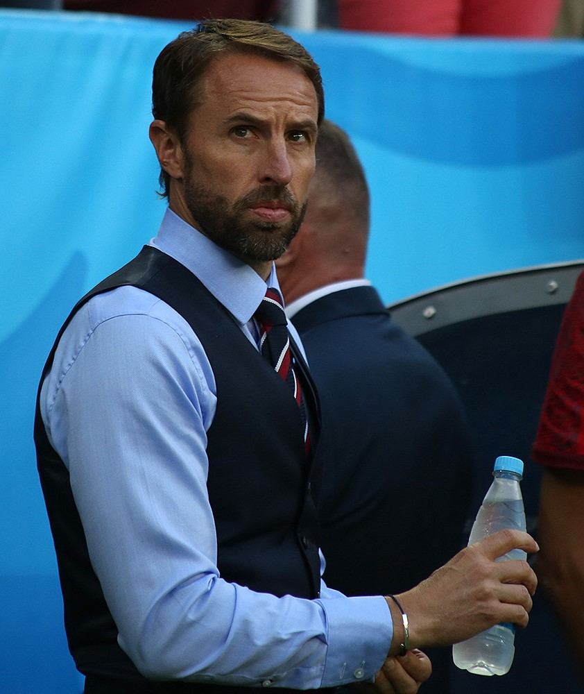 Gareth Southgate